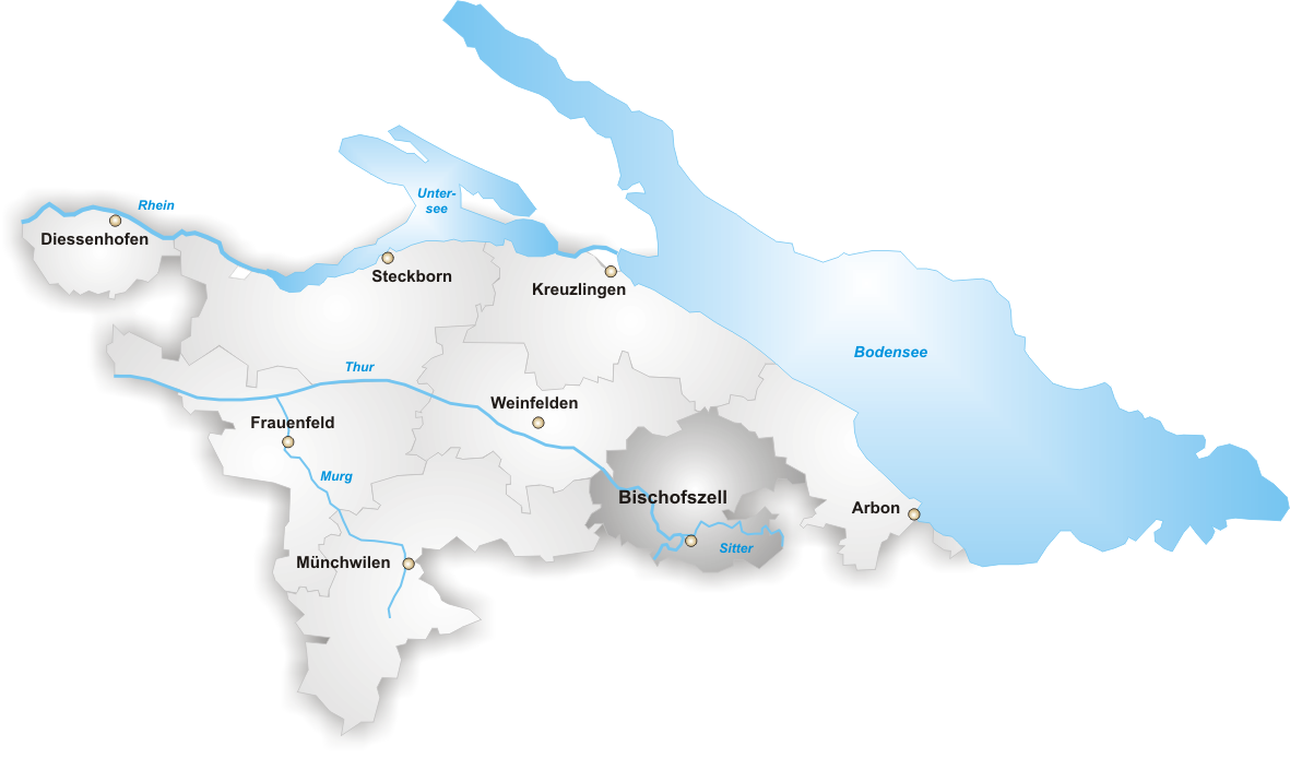 District Bischofszell